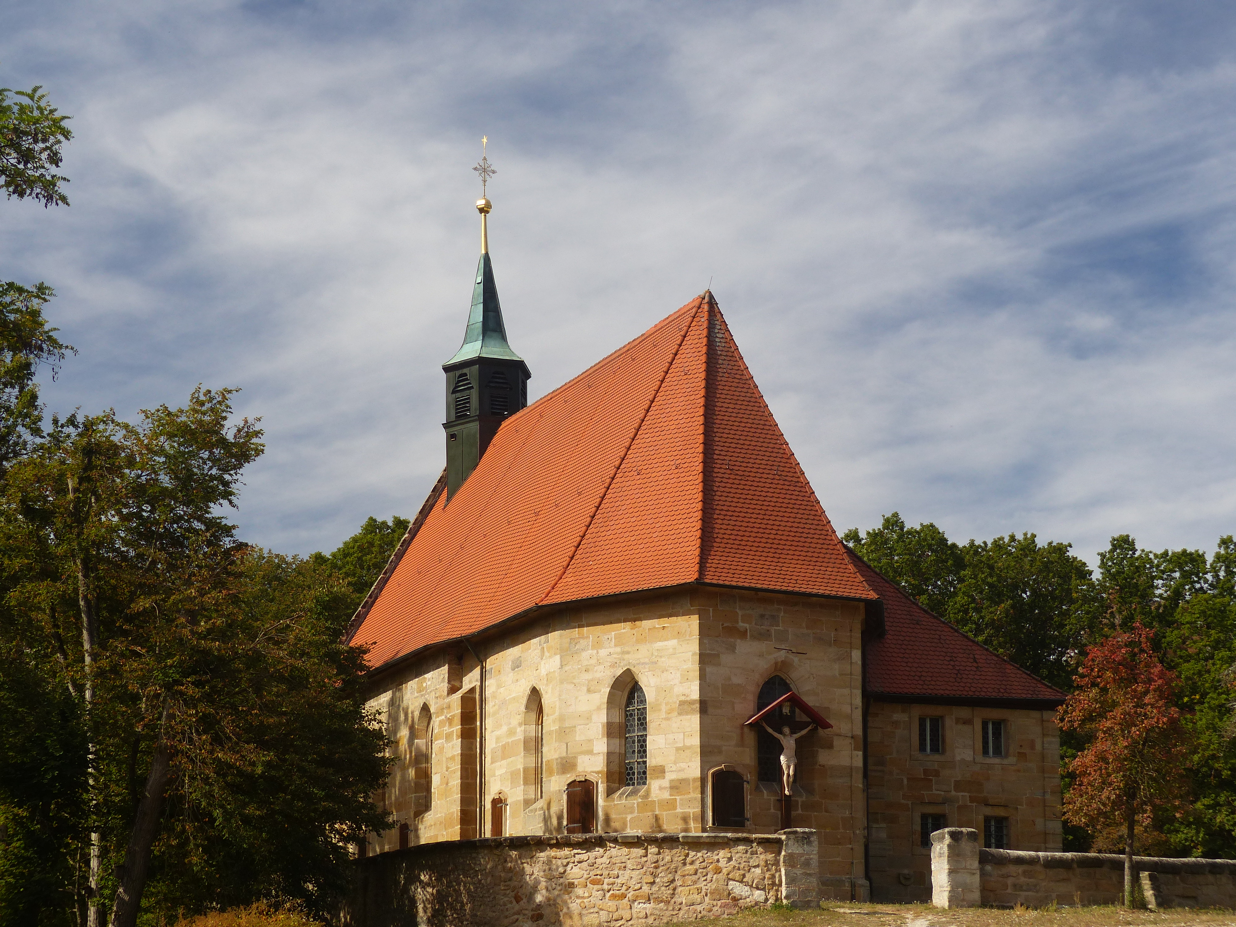 The chapel of the solitude Kreuzberg, a district of the municipality of Hallerndorf.